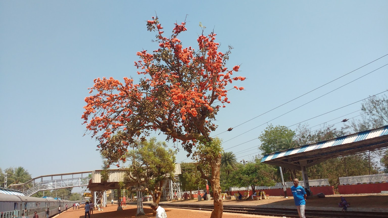 This is the Picture of Bhusandapur railway station